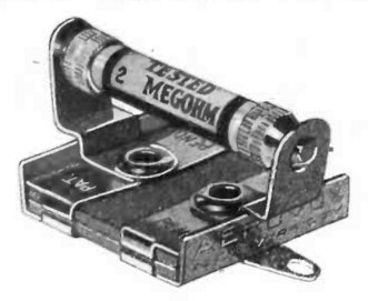 An antique grid-leak resistor and capacitor unit used in vacuum tube radio receivers from an advertisement in a 1926 radio magazine. It consists of a cartridge shaped replaceable 2 megohm resistor in a holder and a mica capacitor built into the base of the holder. It was used in grid-leak detector stages, an obsolete circuit used in tube radio receivers until the 1930s. The resistor and capacitor were connected to the grid of the tube and served as a biasing circuit. The resistor was replaceable so hobbyists could try different values of resistance to get the right one.